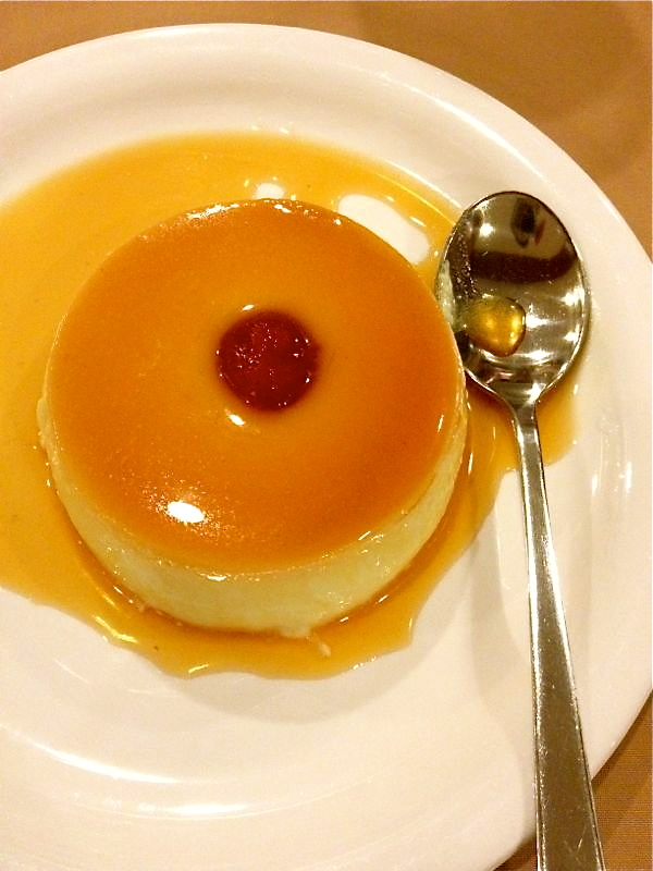 Caramel Custard served at an Indian Restaurant.